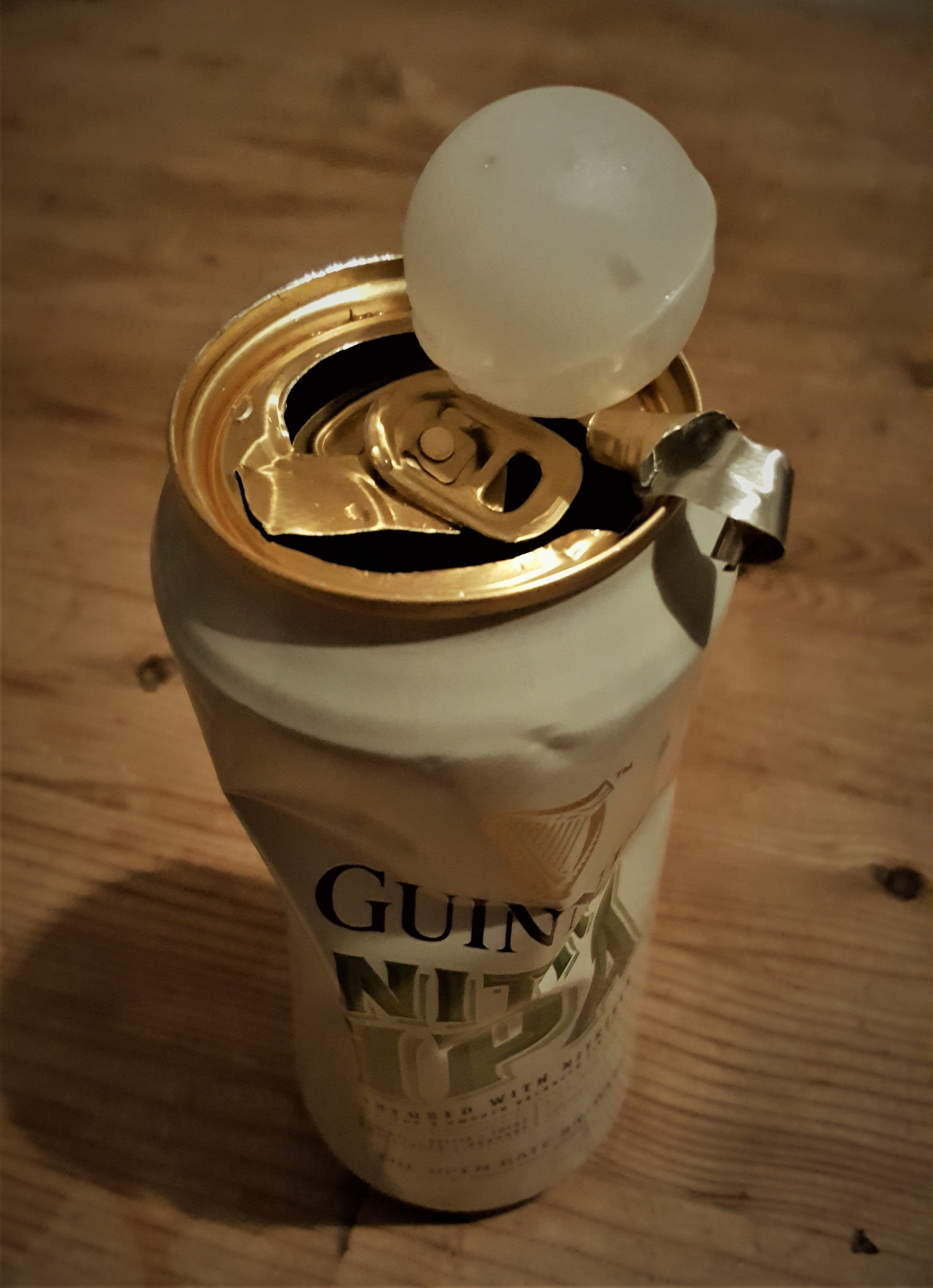 A Guinness Nitro IPA can opened to reveal the plastic widget inside